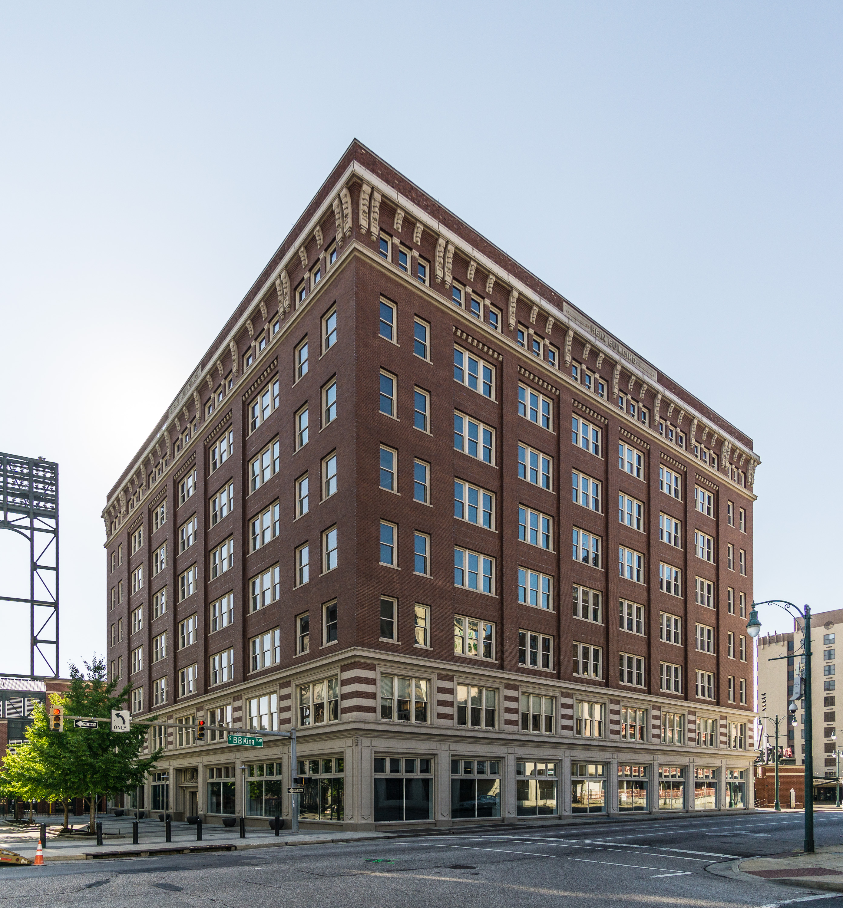 William R. Moore Dry Goods Building Memphis, TN. aka Hein Building, aka Toyota Center. NRHP ID 82004049